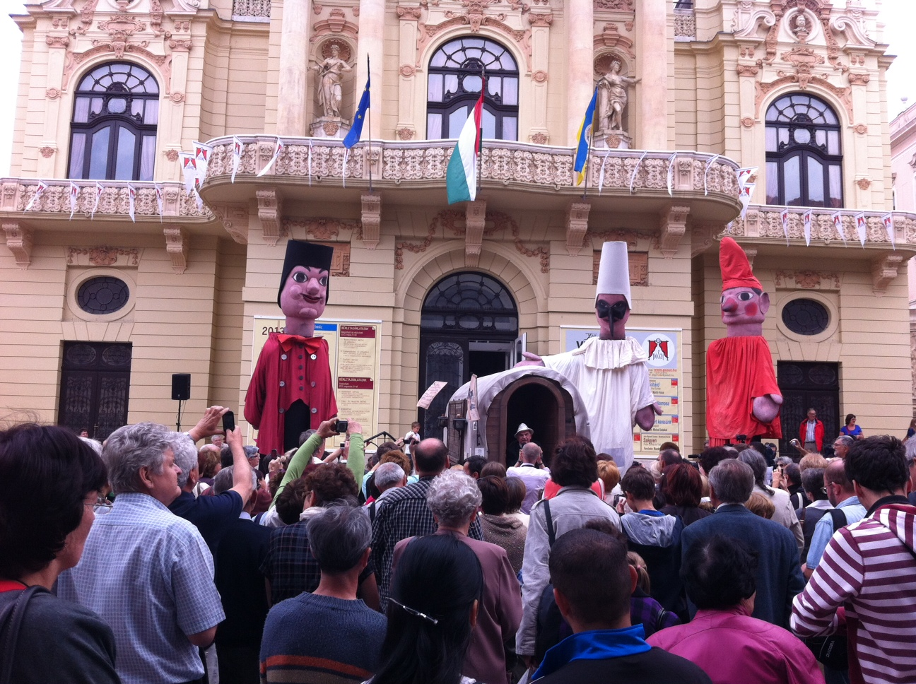 Opening ceremony of POSZT 2013, Pécs, Hungary